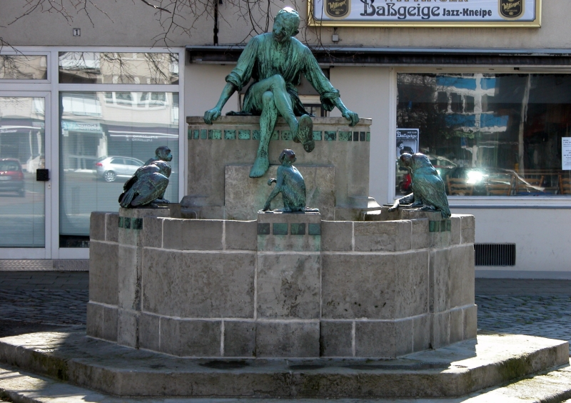 Brunswick, Germany: Eulenspiegel-Brunnen.